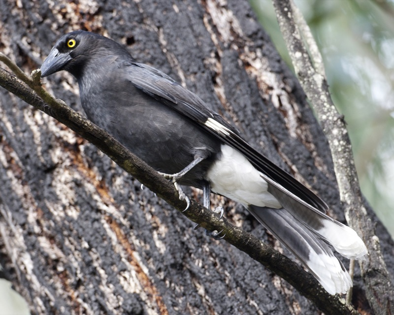 Pied currowong Strepera graculina ssp Strepera graculina nebulosa Great Otway National Park, Victoria, Australia Habitat: temperate rain forest 21st. September 2009 Distribution